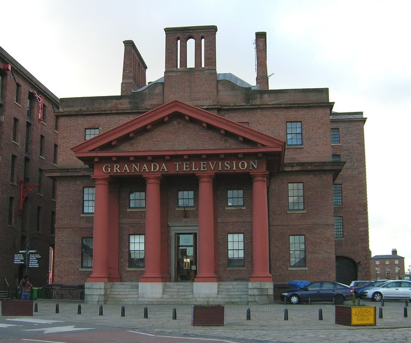 Granada Television Building Former Dock traffic Office.